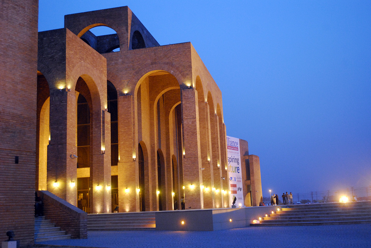 Place for the exhibition.